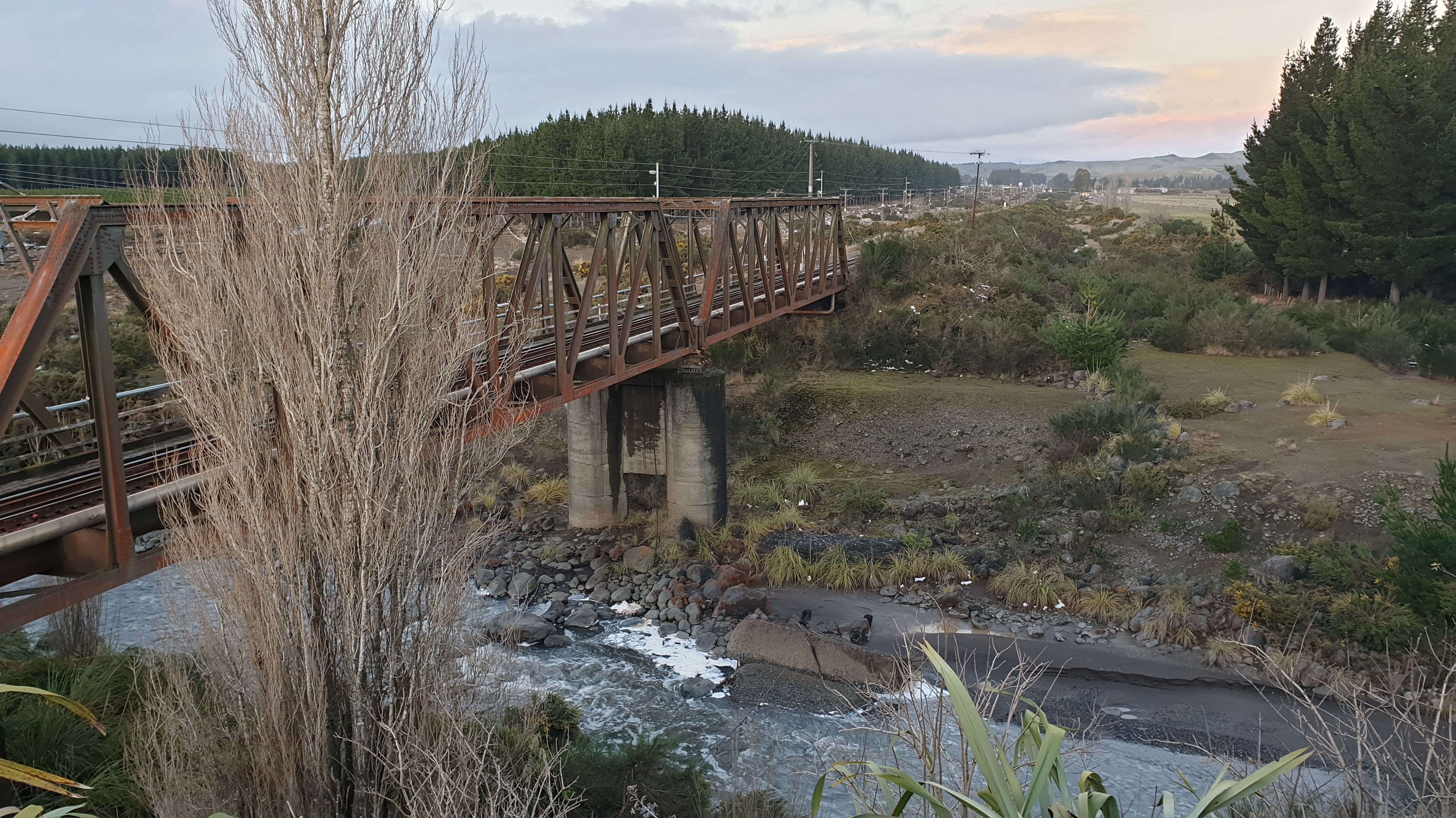 Tangiwai Rail Bridge on the North Island Main Trunk, facing the direction of Wellington. Site of the Tangiwai railway disaster on Christmas Eve 1953. A concrete pier belonging to the bridge destroyed in the disaster is visible under the current bridge.